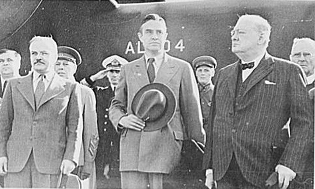 William Averall Harriman with Soviet Foreign Minister Vyacheslav Molotov (left) and Winston Churchill in front of Churchill's transport, AL504